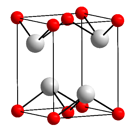 crystal structure of lead(II) oxide